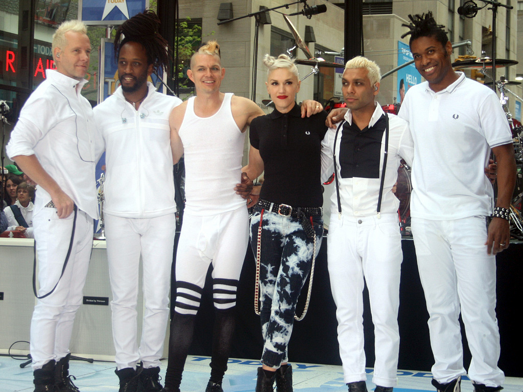 No Doubt at their Today Show appearance, their first television appearance since reuniting.